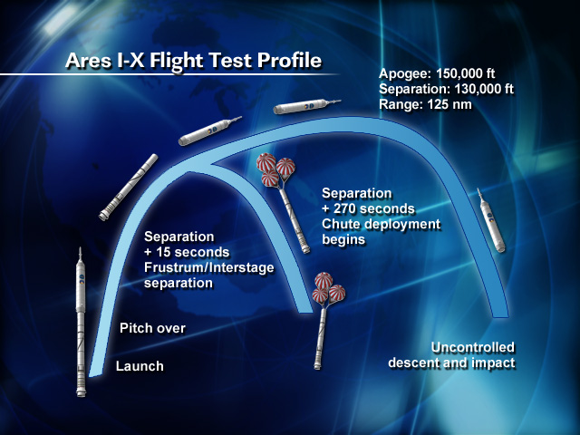 Ares I-X flight profile